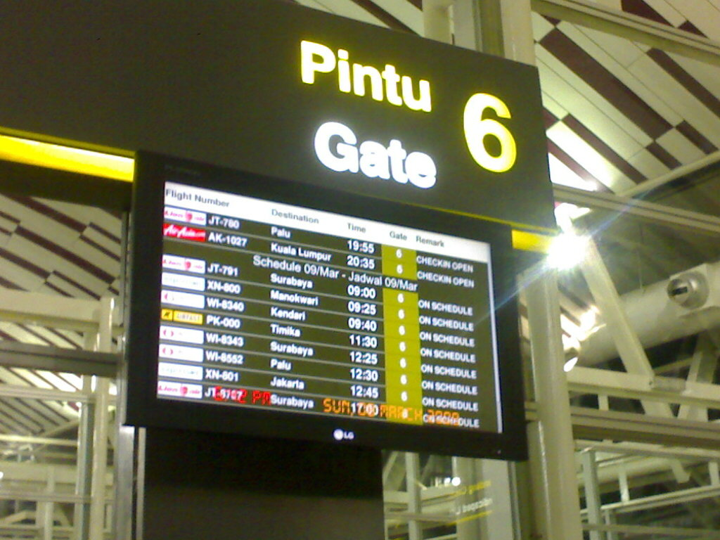 Sultan Hasanuddin International Airport of Makassar